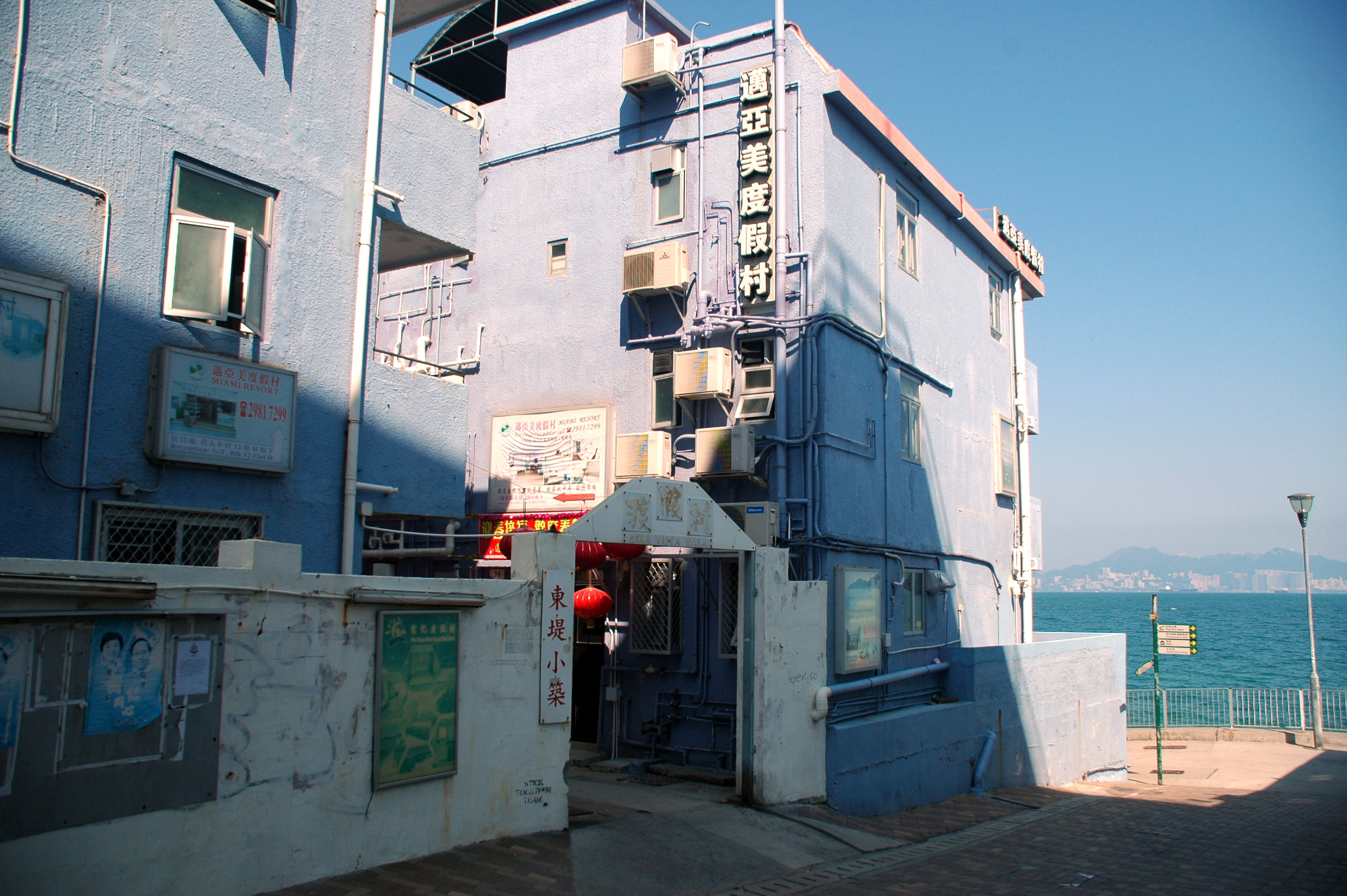 Bela Vista Villa, Cheung Chau, Hong Kong.